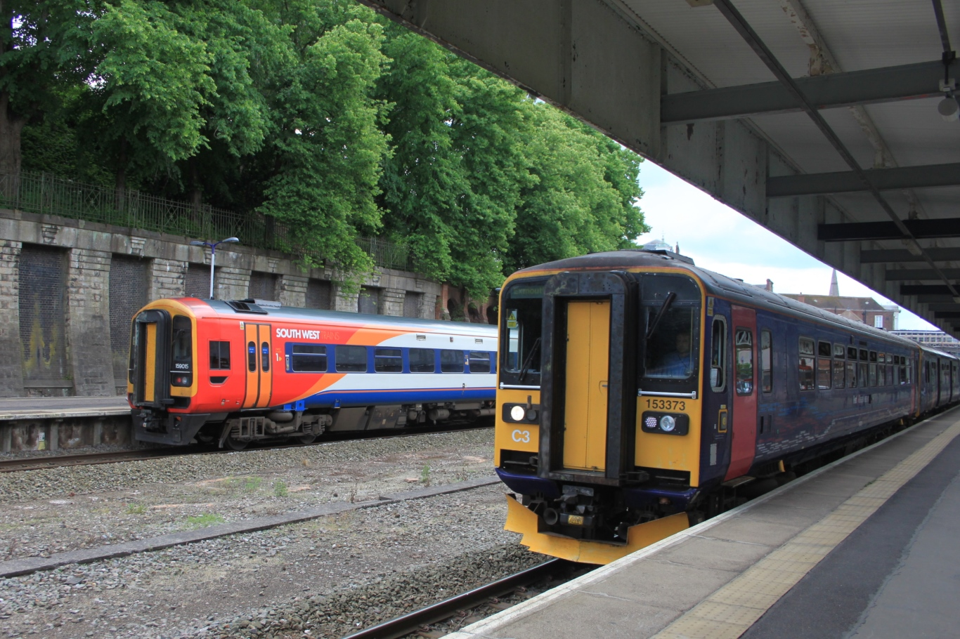 First Great Western's 153373 (with 150125 coupled behind) calls at Exeter Central station on the way to Exmouth where it passes South West Train's 159015 which is nearing journey's end on a London Waterloo to Exeter St Davids service.